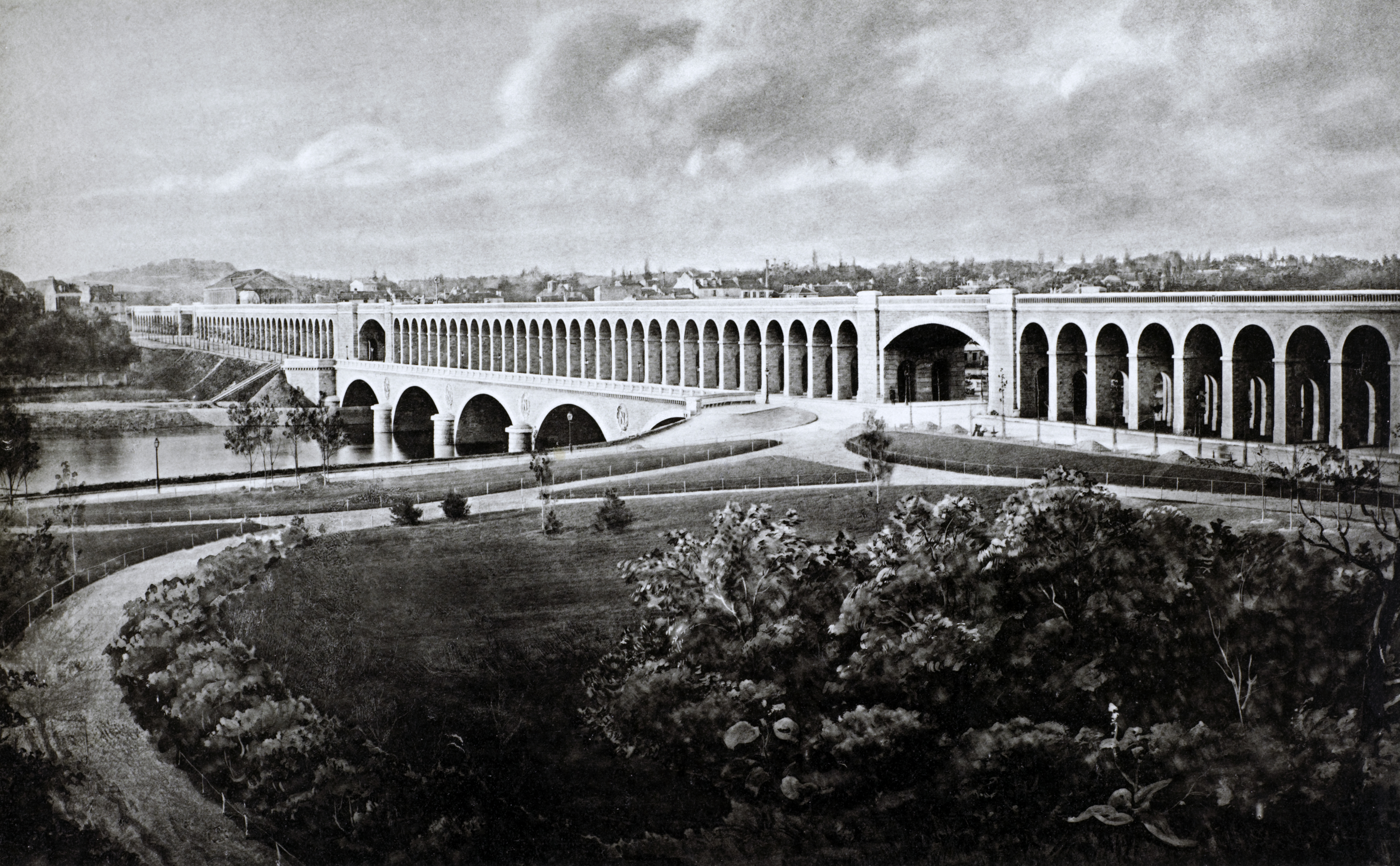 Viaduc d'Auteuil, Paris, France, also known as Viaduc du Point-du-Jour. Replaced in 1963 by the Pont du Garigliano.